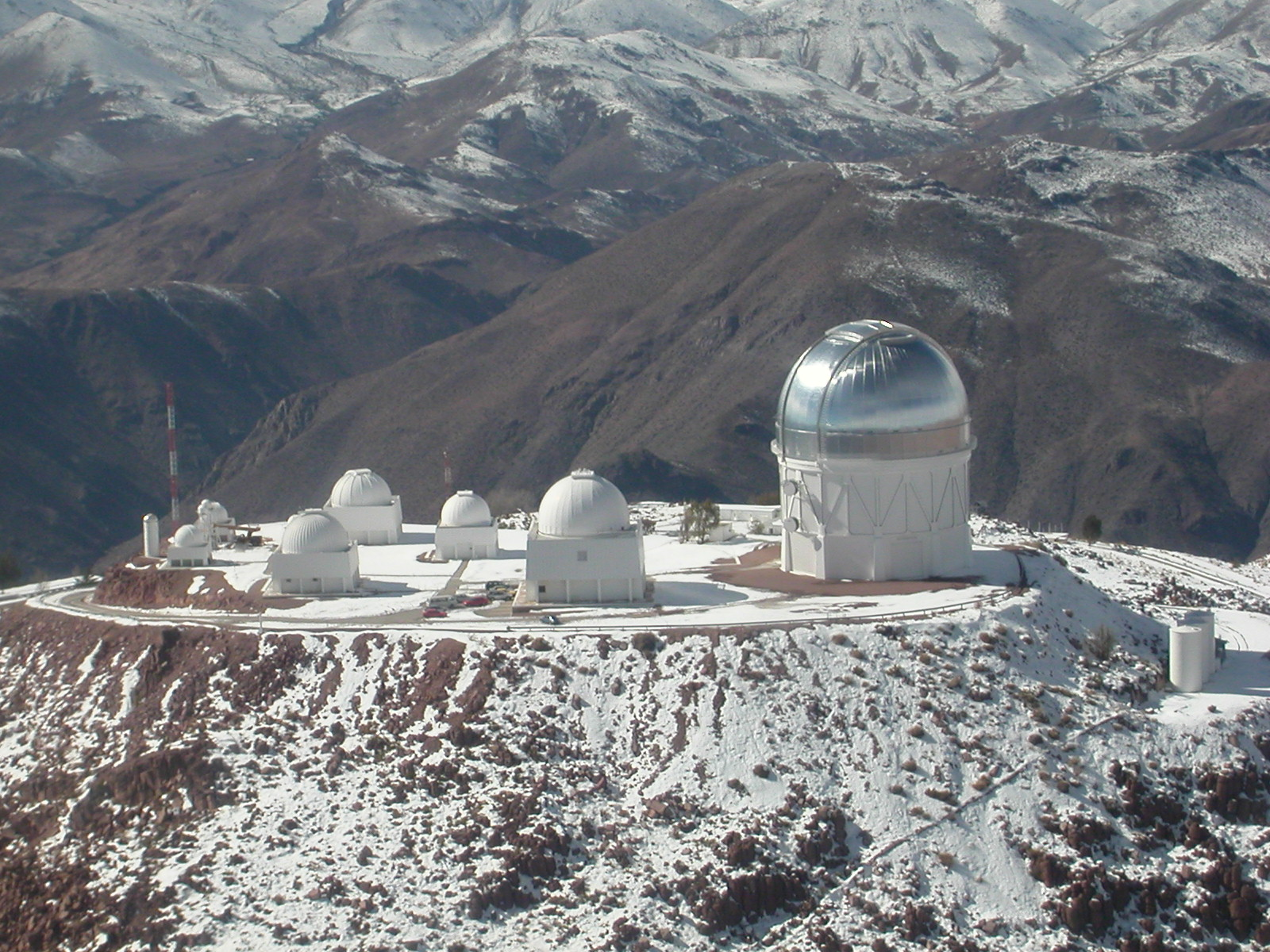 Taken by David Walker while Cessna 172 over Cerro Tololo